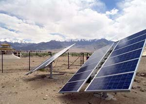 Solar Panels at The Druk White Lotus School